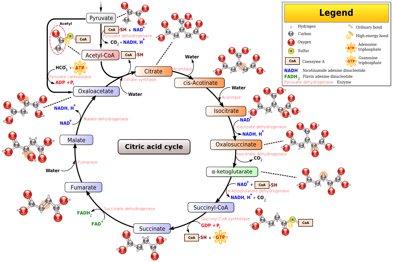 Overview of the citric acid cycle